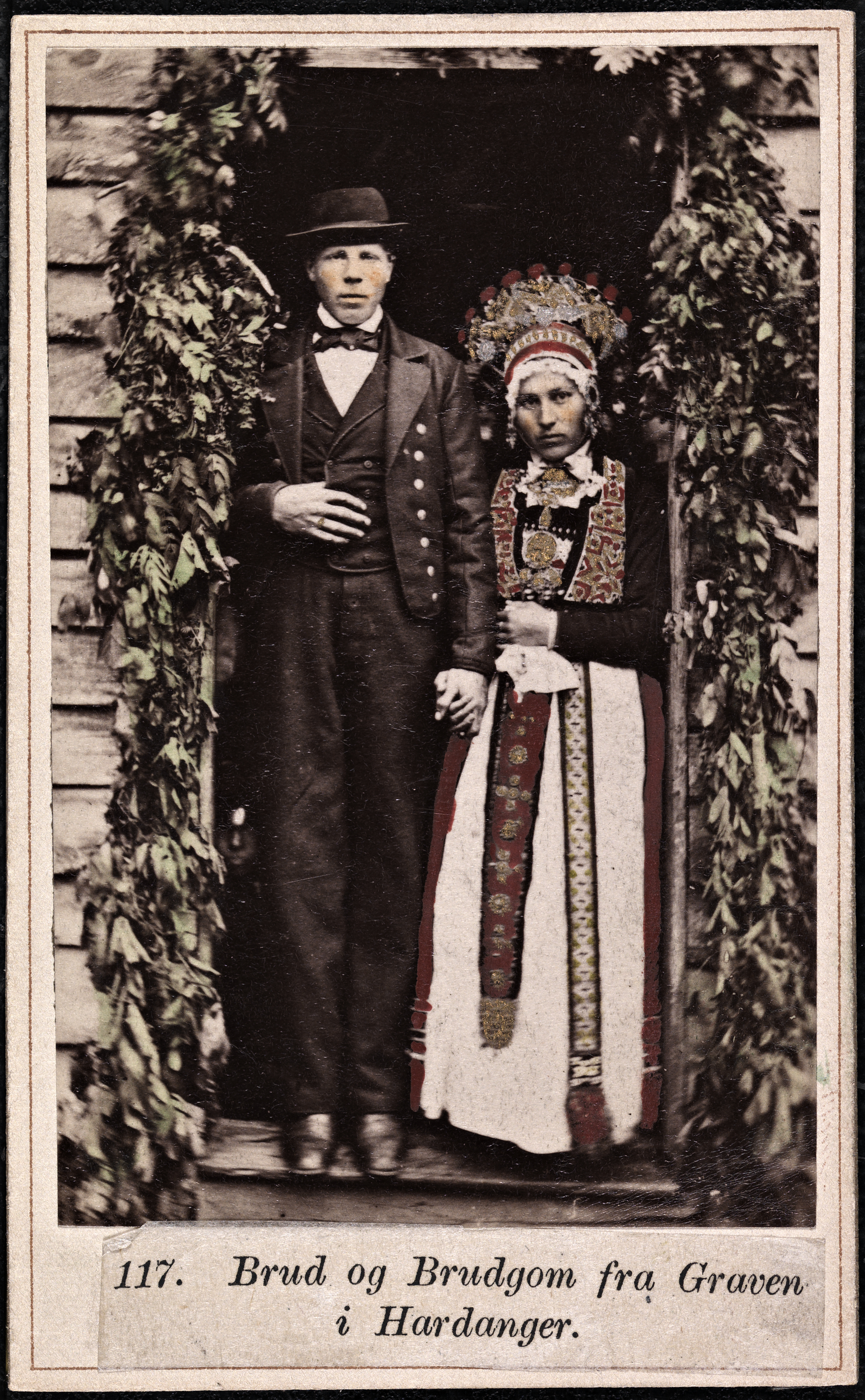 Beskrivelse / Description: Drakt fra Granvin (Hordaland). Visittkort / Carte de visite. Dato / Date: ca. 1860-1870 Fotograf / Photographer: Marcus Selmer (1819-1900) Digital kopi av original / Digital copy of original: s/h papirpositiv, visittkort, kolorert Eier / Owner Institution: Nasjonalbiblioteket / National Library of Norway Lenke / Link: Bildesignatur / Image Number: bldsa_FA0547